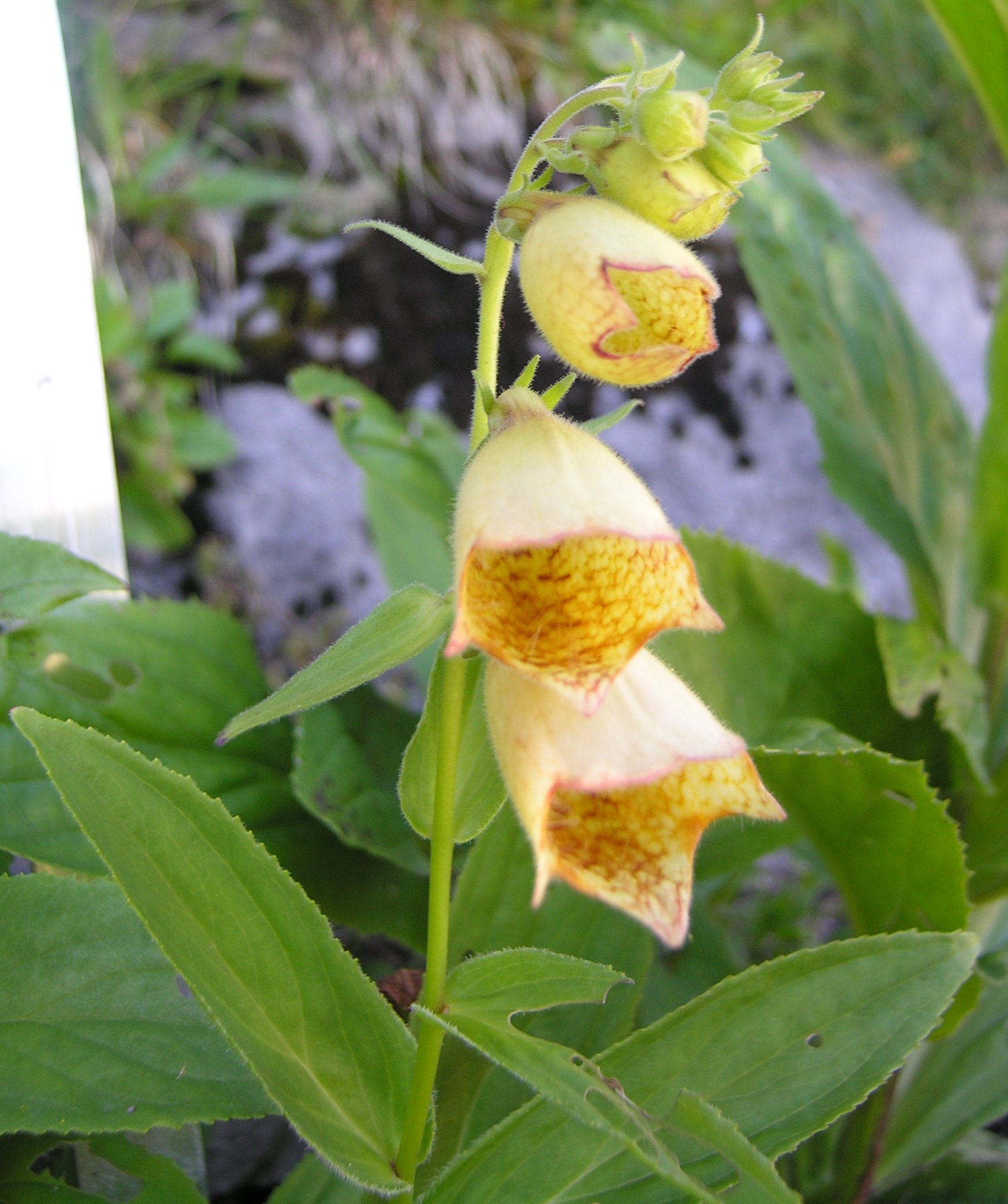 Digitalis grandioflora, Swiss alps